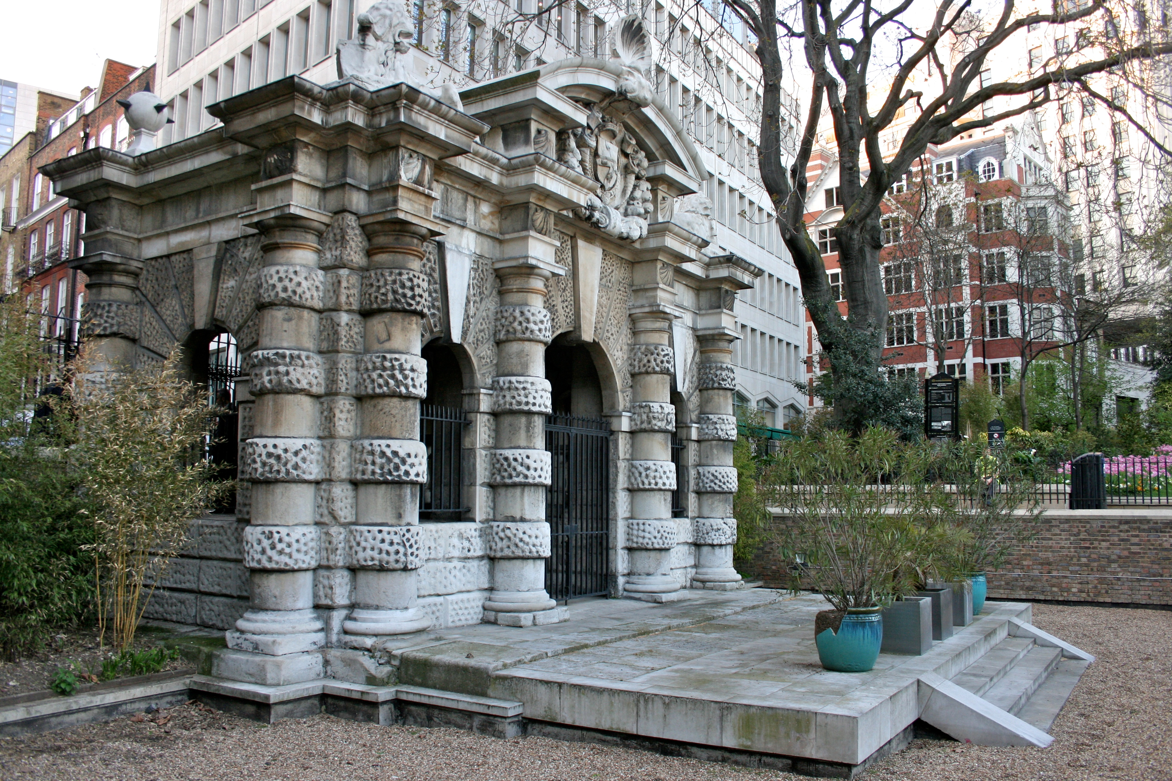 York Water Gate. "This gateway marks the position of the north bank of the River Thames before the construction of the Victoria Embankment in 1862". London.